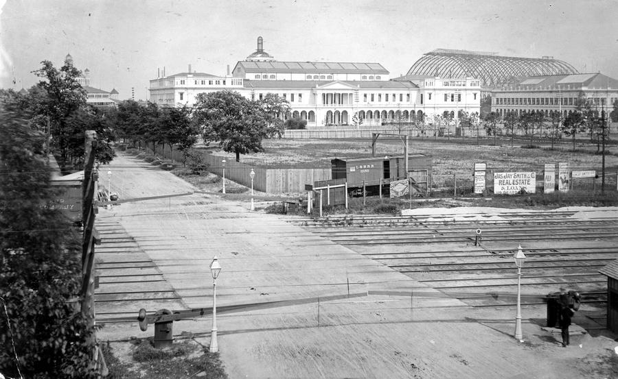 World's Columbian Exposition under construction as viewd from the IC tracks at 61st St. - Woman's Building, Agricultural Building